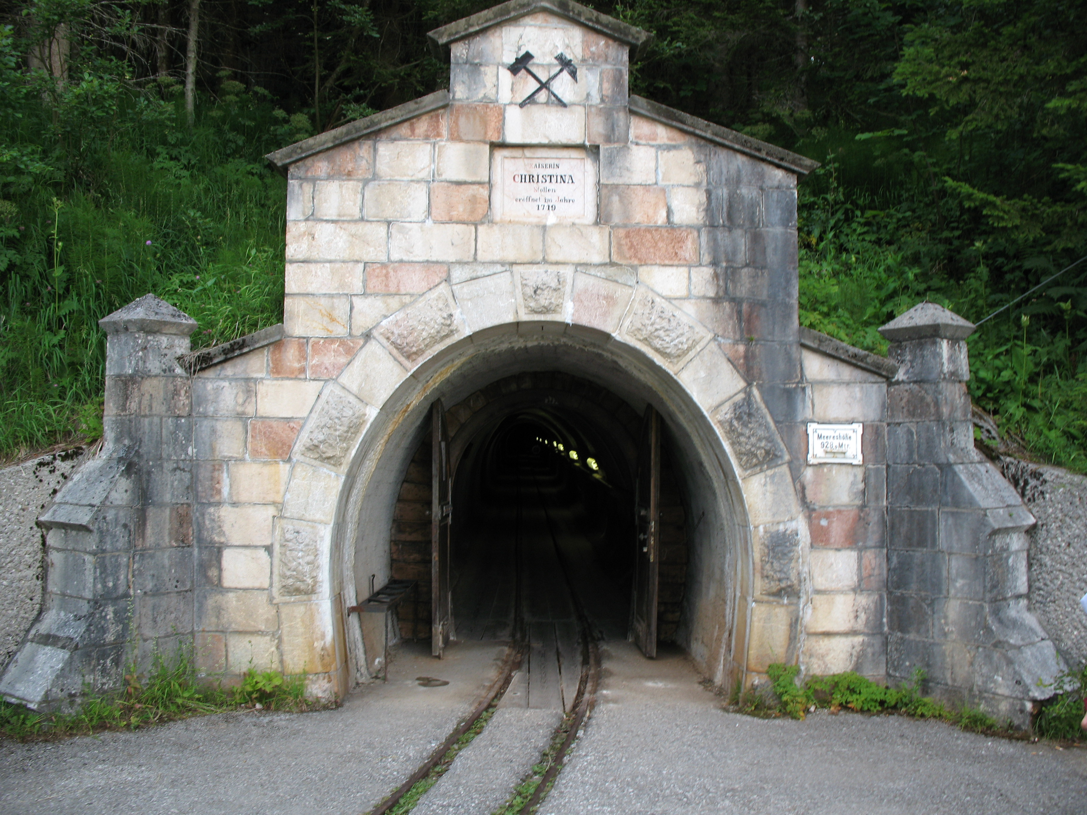 Salt Mine (tourist entrance), Hallstatt, Austria